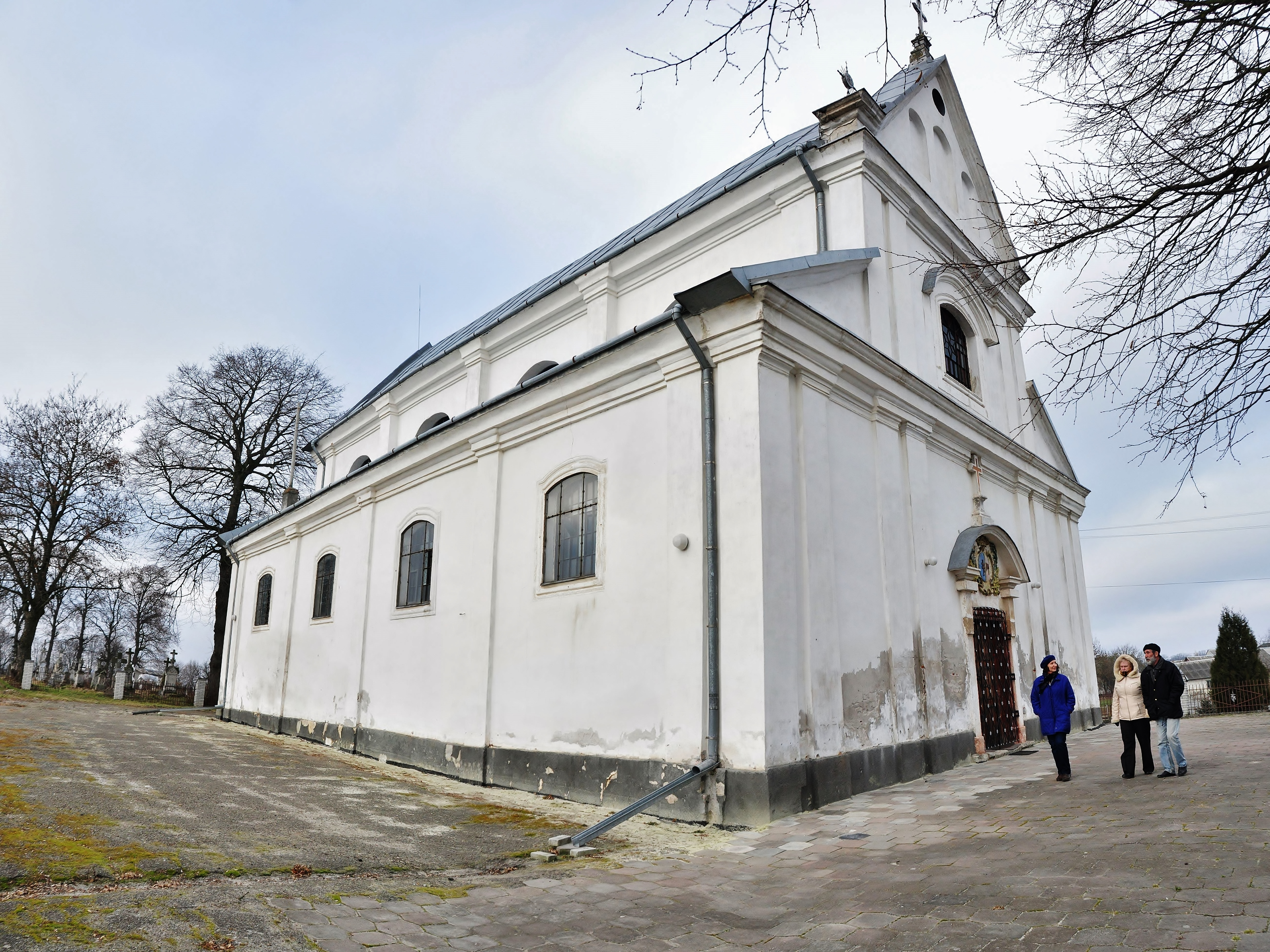 Roman Catholic Church of Saint Martin in Semenivka near Shchyrec, Pustomyty Raion, Lviv Oblast. Co-founded by Aleksander Jan Potocki